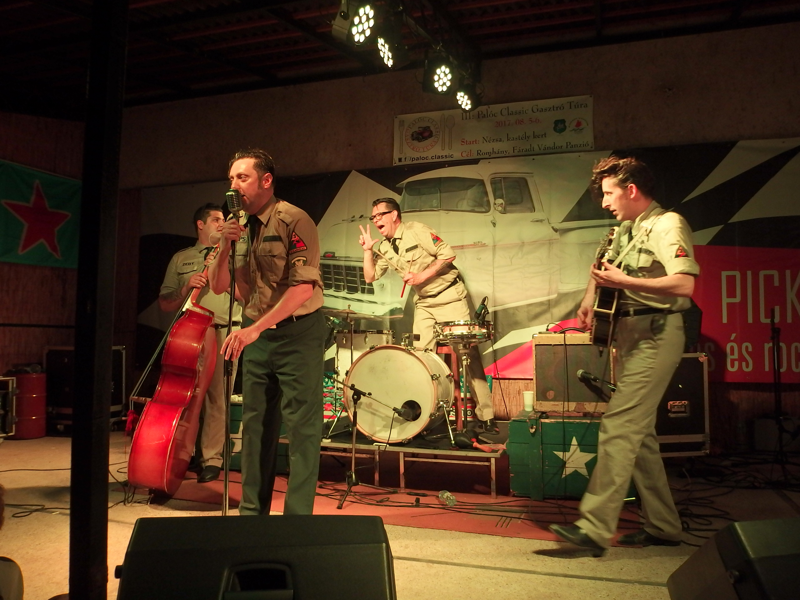 Ed Philipos and the Memphis Patrol Hungarian Elvis Presley tribute band